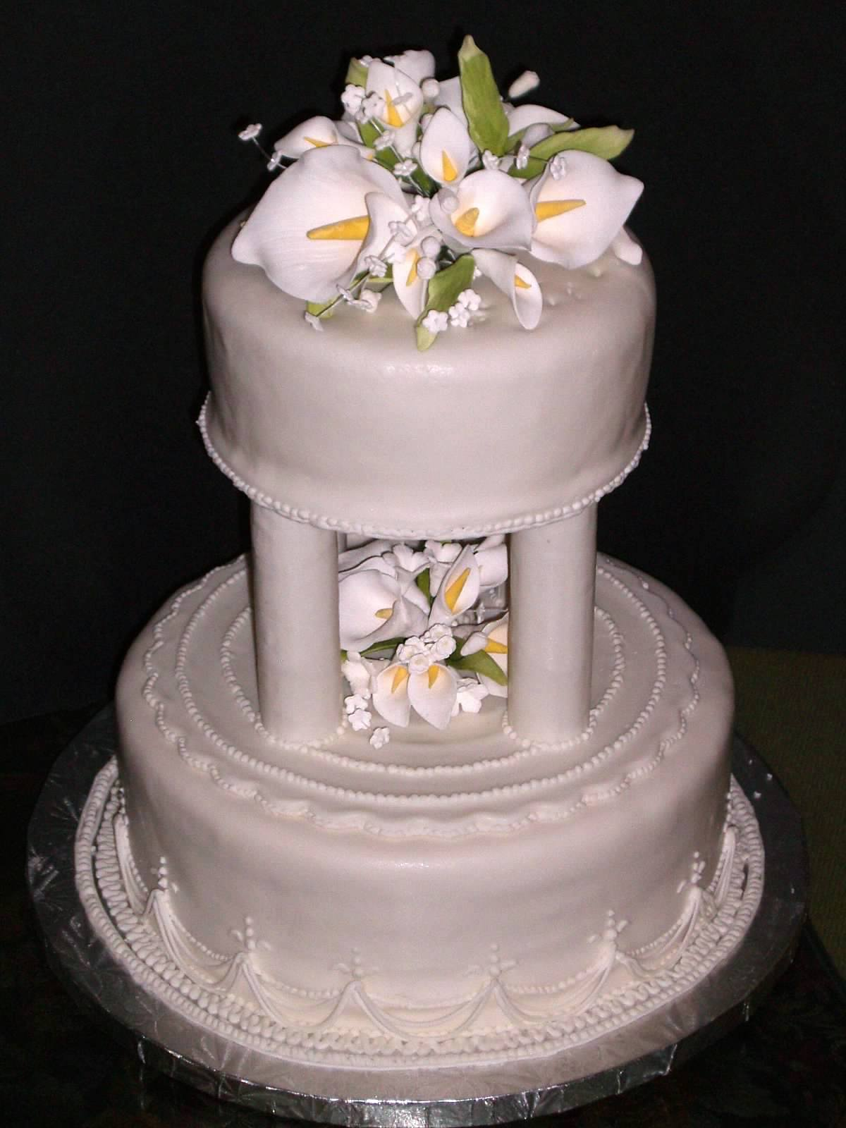 Tiered cake with fondant frosting